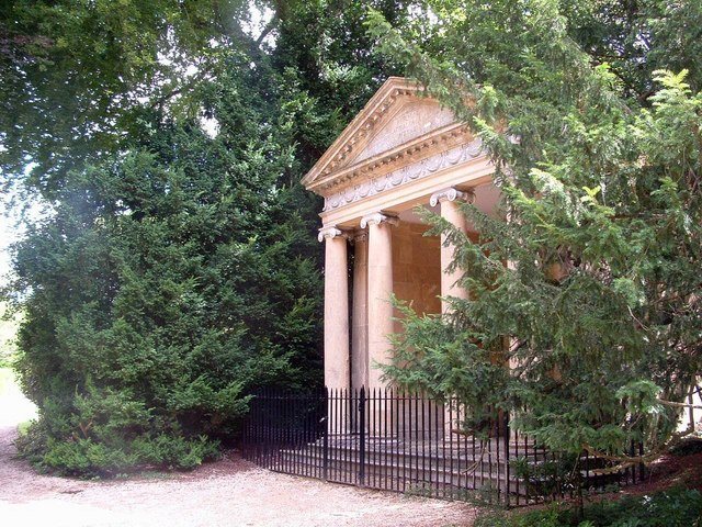 Temple, Blenheim Park Winston Churchill proposed to Clementine Hoosier in this temple at Blenheim Palace.